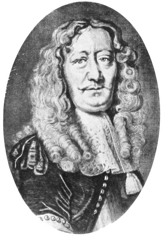 The Dutch/Danish officer and engineer, Henrik Ruse